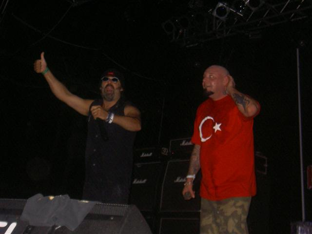 This is a picture of Blaze Bayley and Paul Di'Anno performing live in my home town in Turkey.